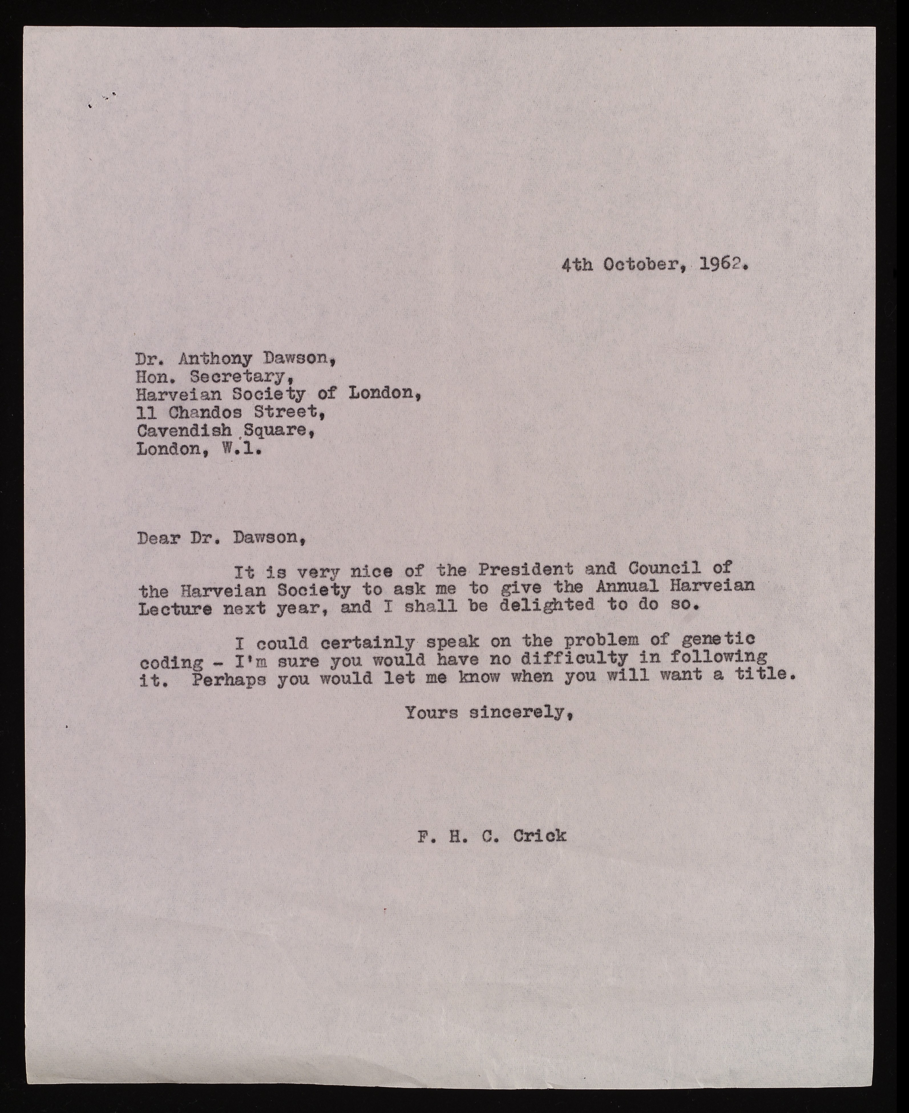 Letter from Francis Crick to Dr Anthony Dawson regarding the former's Harveian Lecture Archives & Manuscripts Keywords: Francis Harry Compton Crick